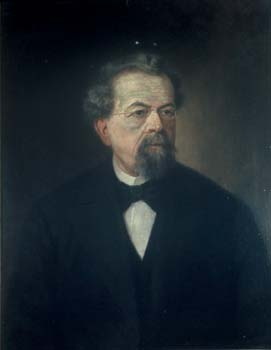 portrait of Karl von Prantl, german philosopher and philologian (1820 - 1888)